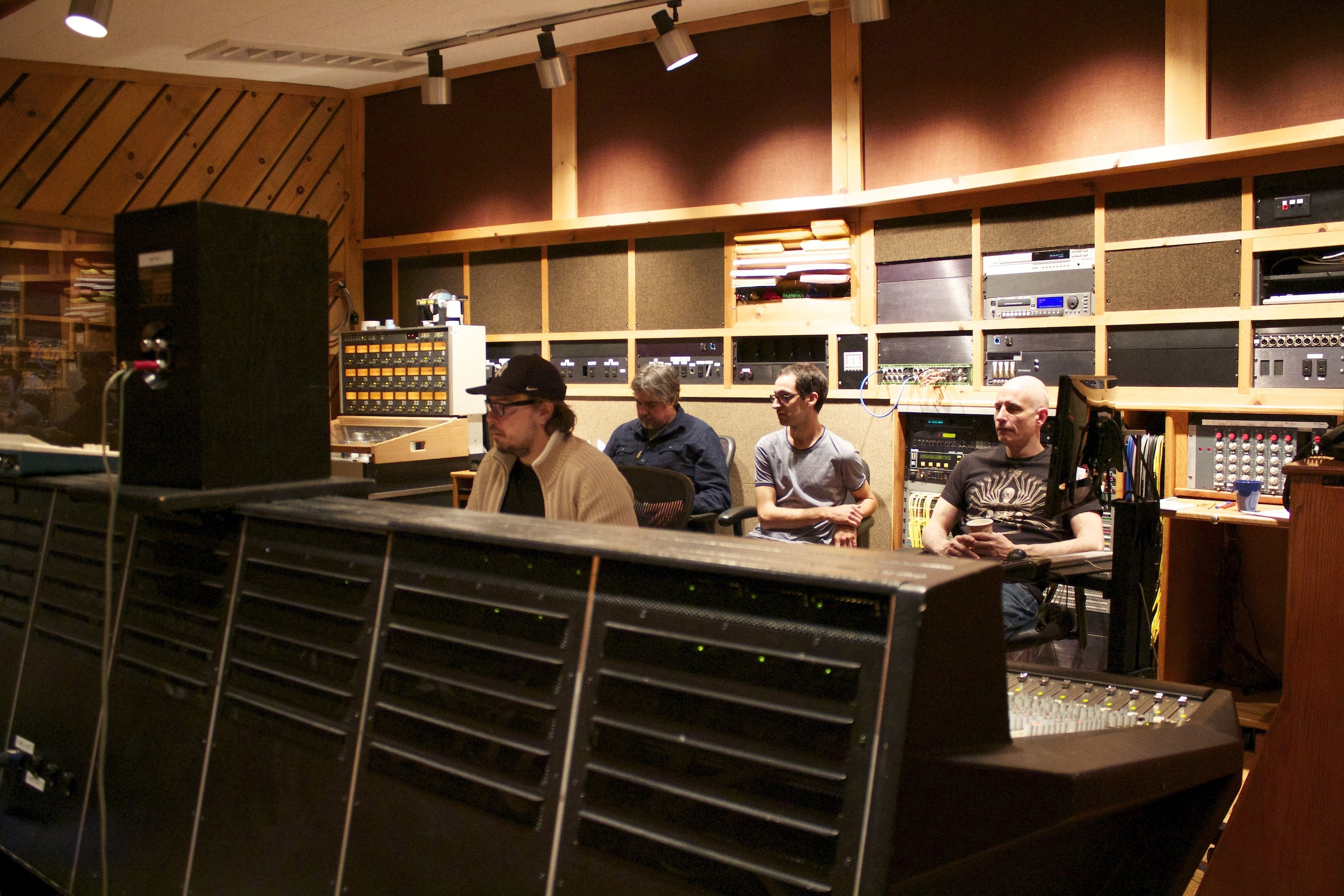 Recording Engineer Luis Bacque with saxophonist Tony Malaby drummer Damian Allegretti and cellist Erik Friedlander at Avatar Studios, New York.